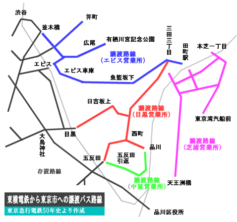 bus lines tansferred to Tokyo city by Tokyu in 1942